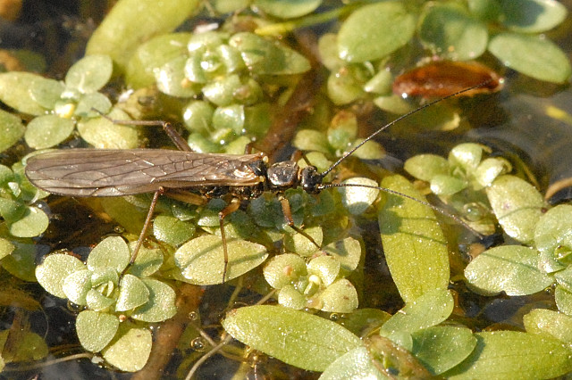 Perla marginata from Commanster, Belgian High Ardennes .